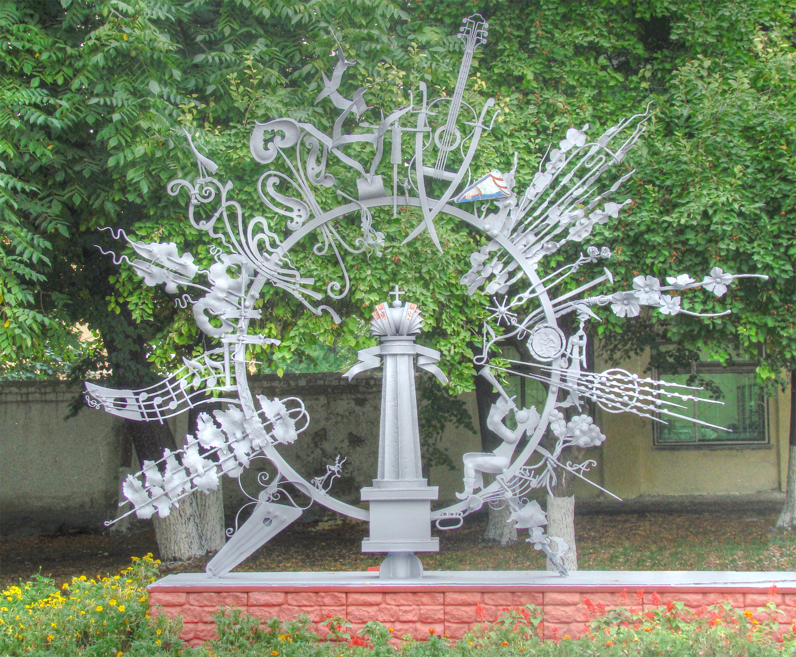 First circle, monument, Ulyanovsk